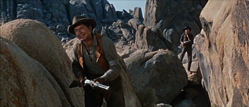 Claude Akins and Randolph Scott in Comanche Station (1960)